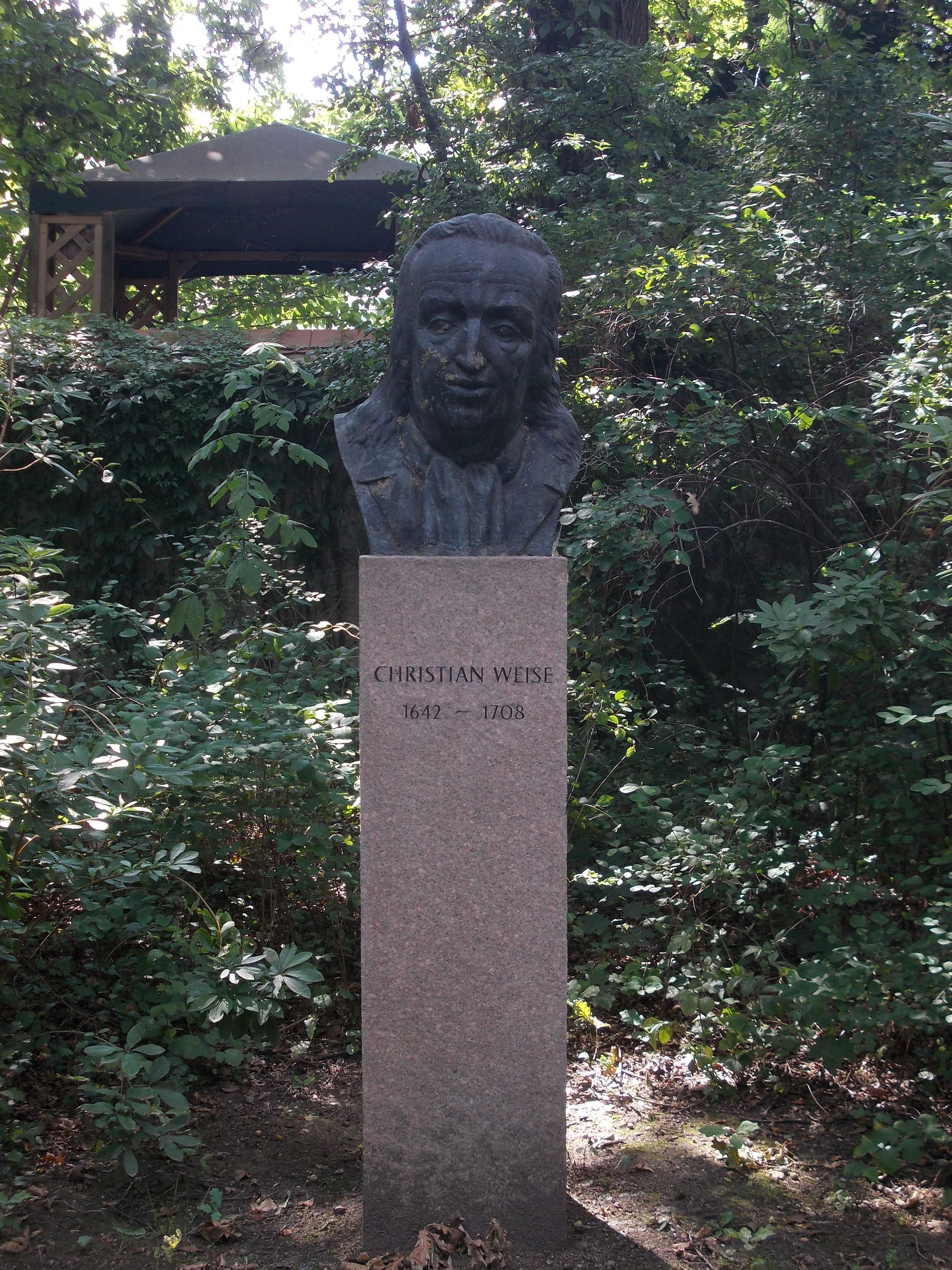 Memorial to the writer Christian Weise in Zittau (Görlitz district, Saxony)